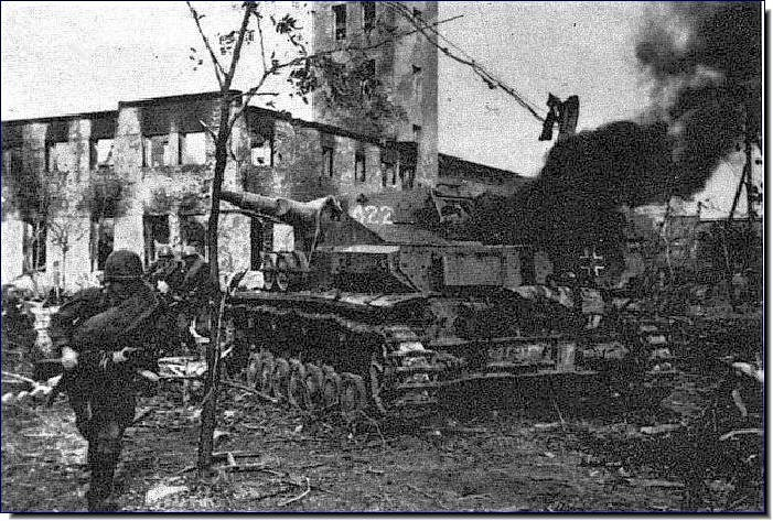 Soviet soldiers pass an immobilised German tank in the town